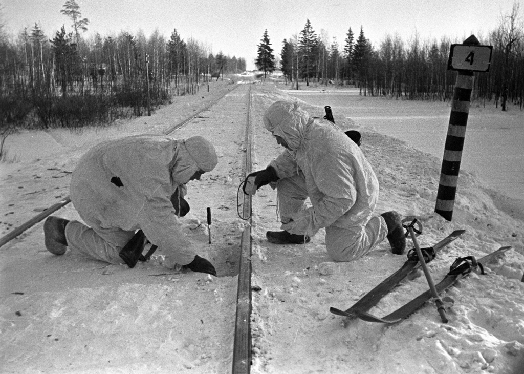 “Soviet soldiers mining the railroad”. Soviet soldiers mining the railroad near Moscow.